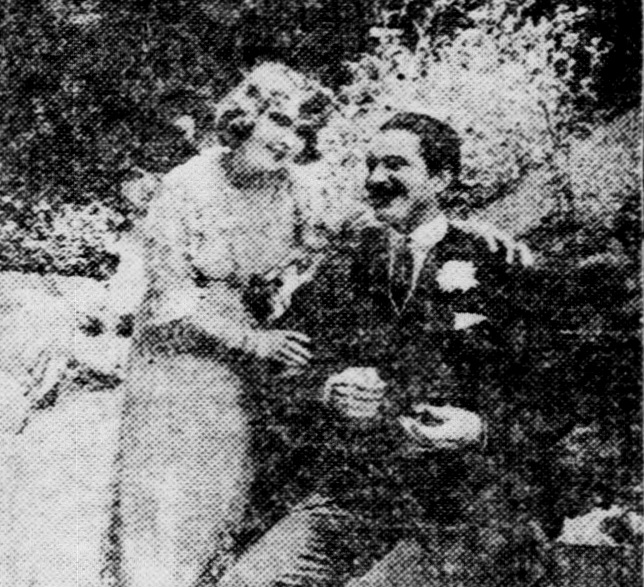 The Marriage of Kitty is a 1915 American comedy silent film directed by George Melford. This is a publicity photo published in a newspaper.